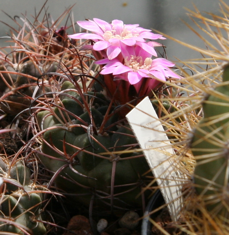 Neowerdermannia chilensis subsp. peruviana